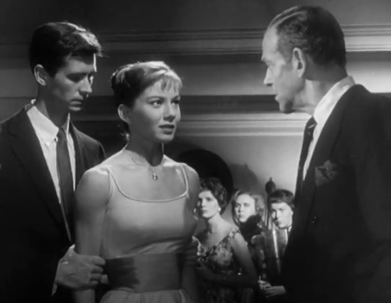 L. to R. : Anthony Perkins, Donna Anderson & Fred Astaire in On the Beach - trailer (cropped screenshot)